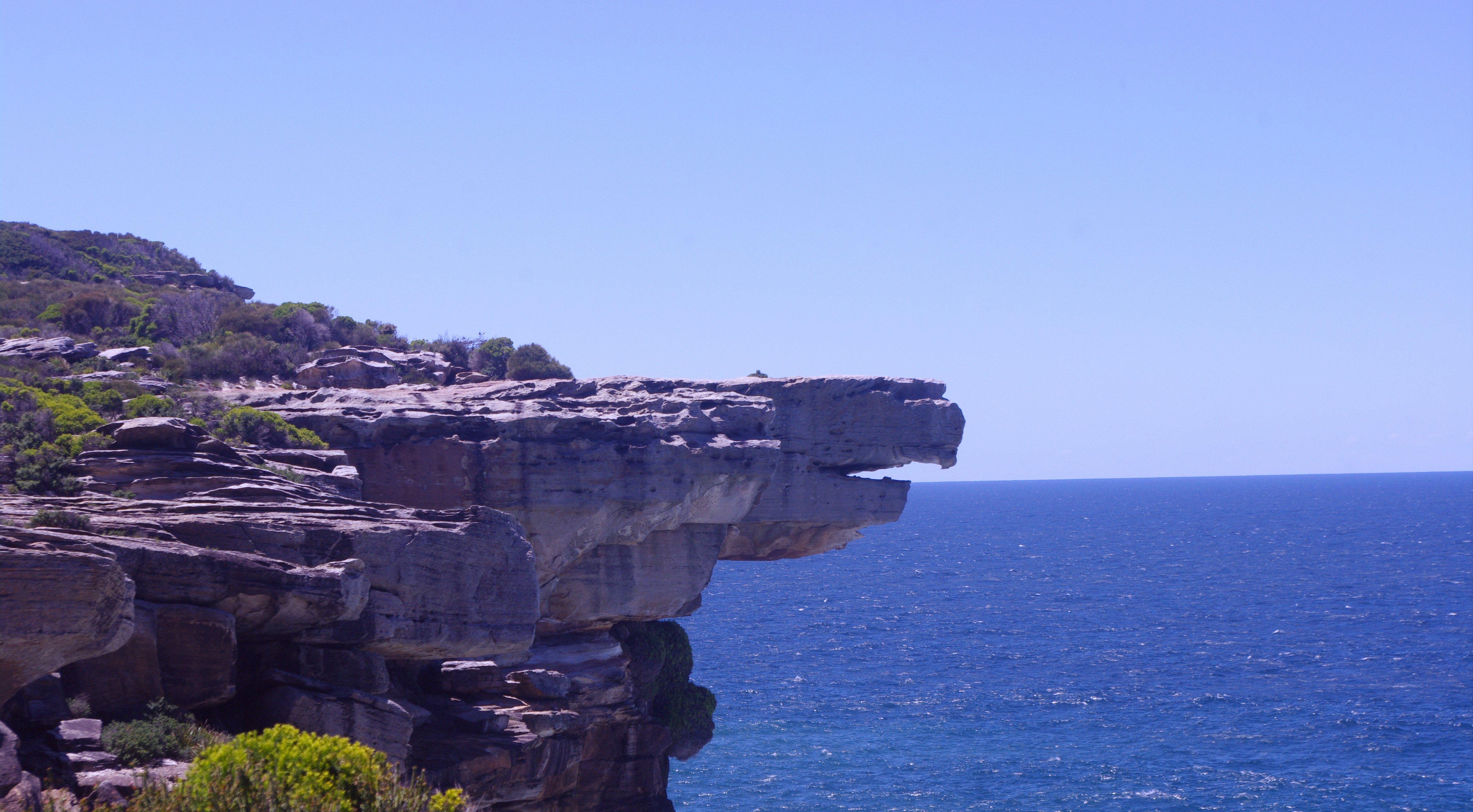 An amazing rock formation that looks like an eagle's head juts out into the sea from the land mass.